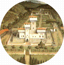 Clipped detail from a painting by G Utens of am Italian Villa painted in 1599 In public domain by virtue of age